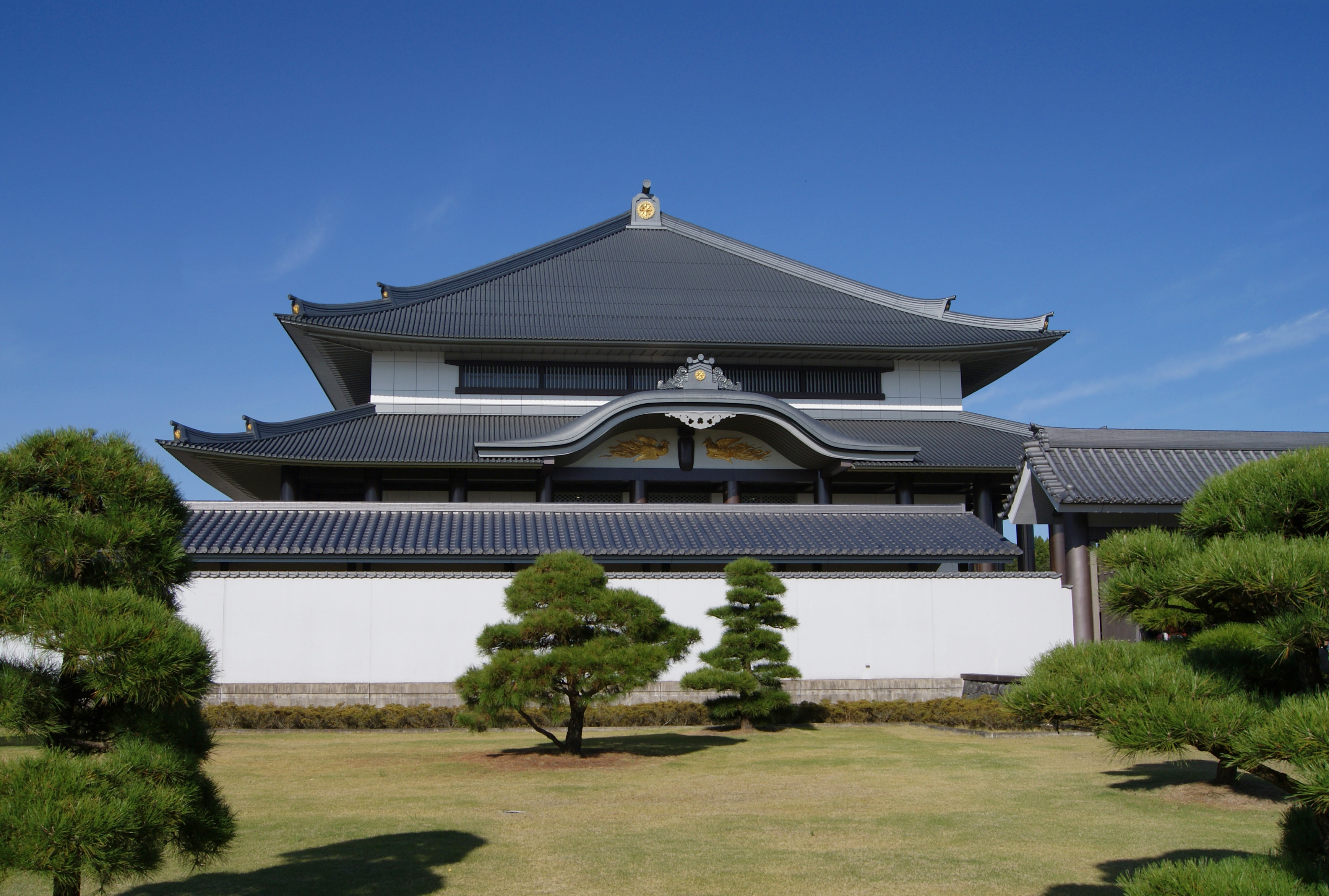 Hōandō of Taiseki-ji.jpg